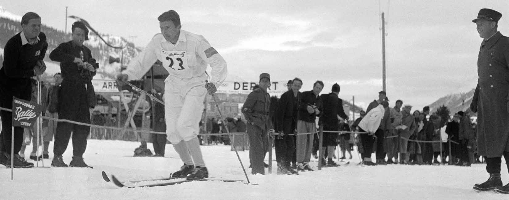 Nils Karlsson at the 1948 Olympics